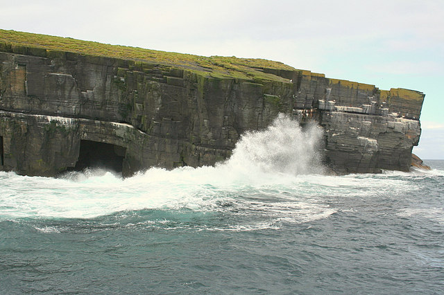 The power of the sea and caves on the Horse of Copinsay, Orkney Islands. The profile of the caves on Copinsay tend to be straight and regular.